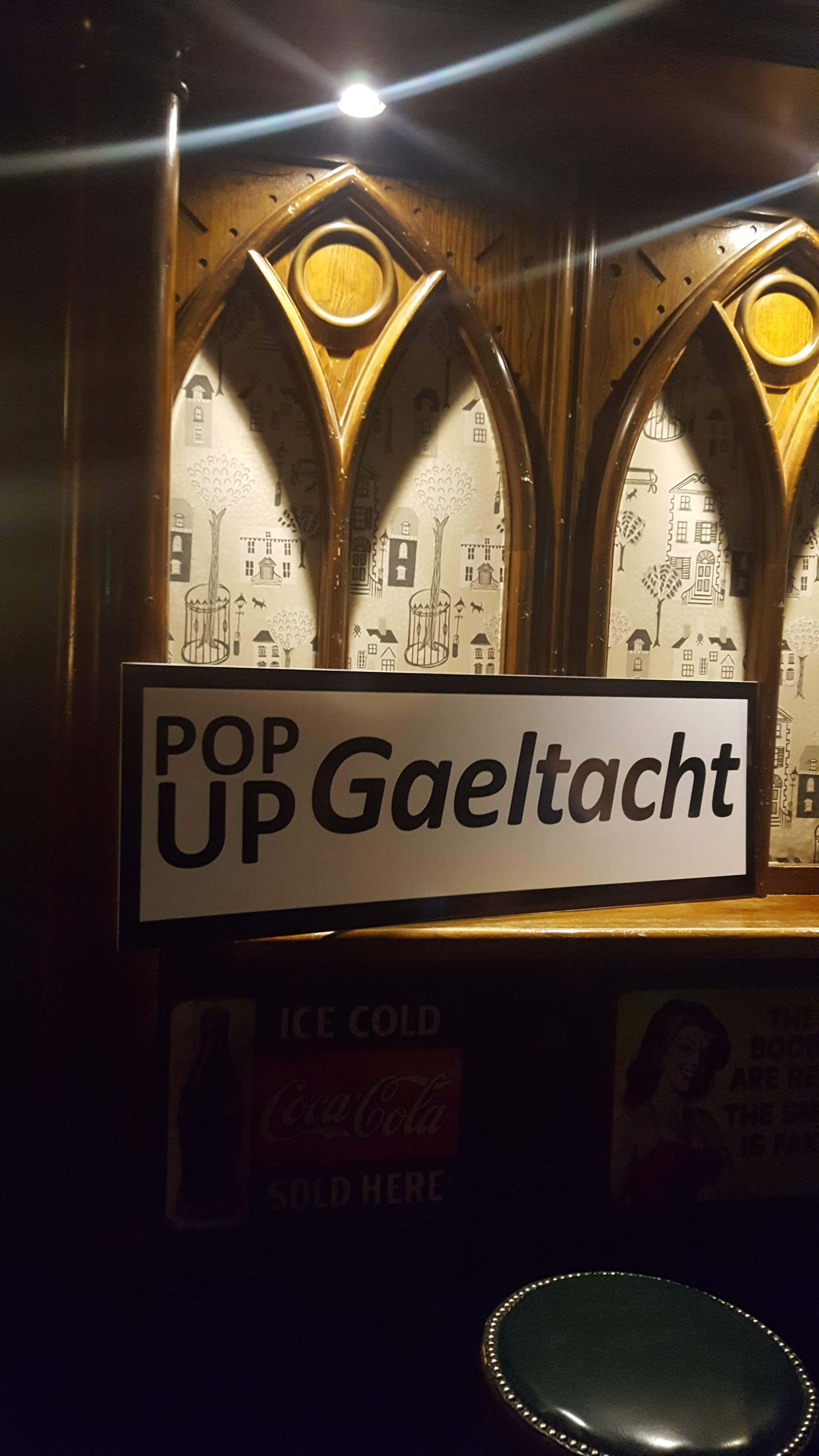 Comhartha Pop-up Gaeltacht ar bheár i Gingermans i mBaile Átha Cliath